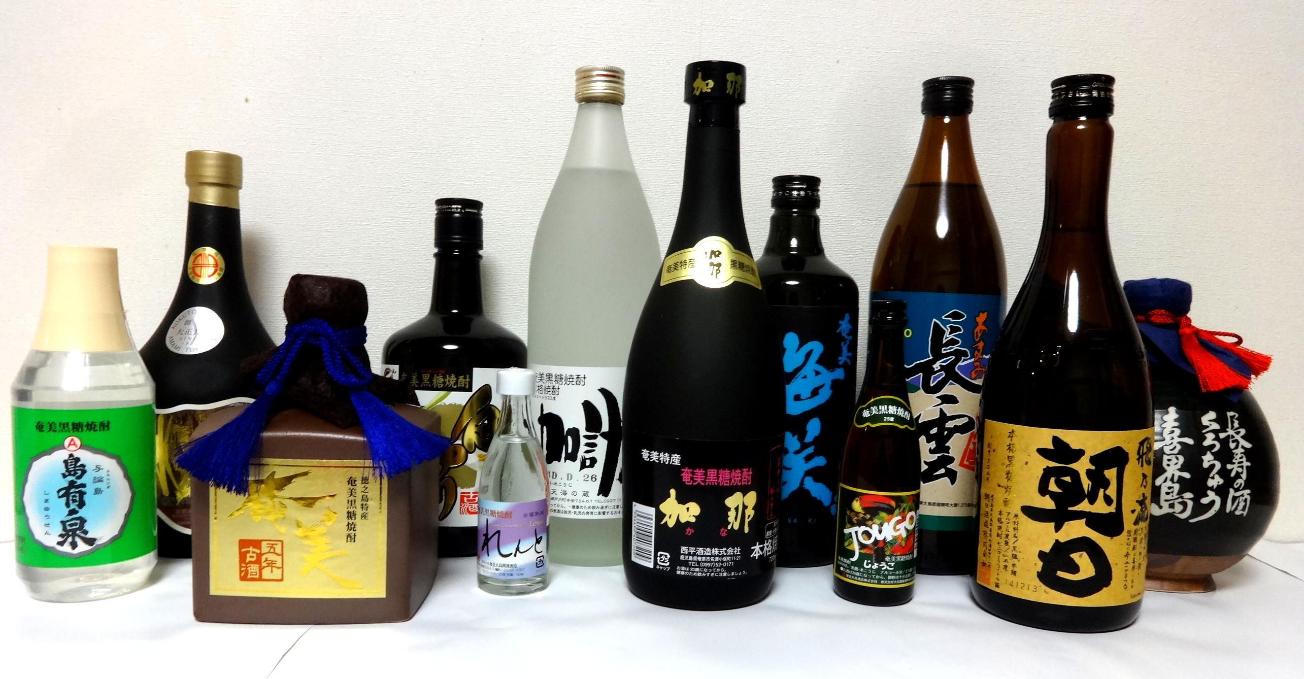 Various Amami kokuto shochu in market